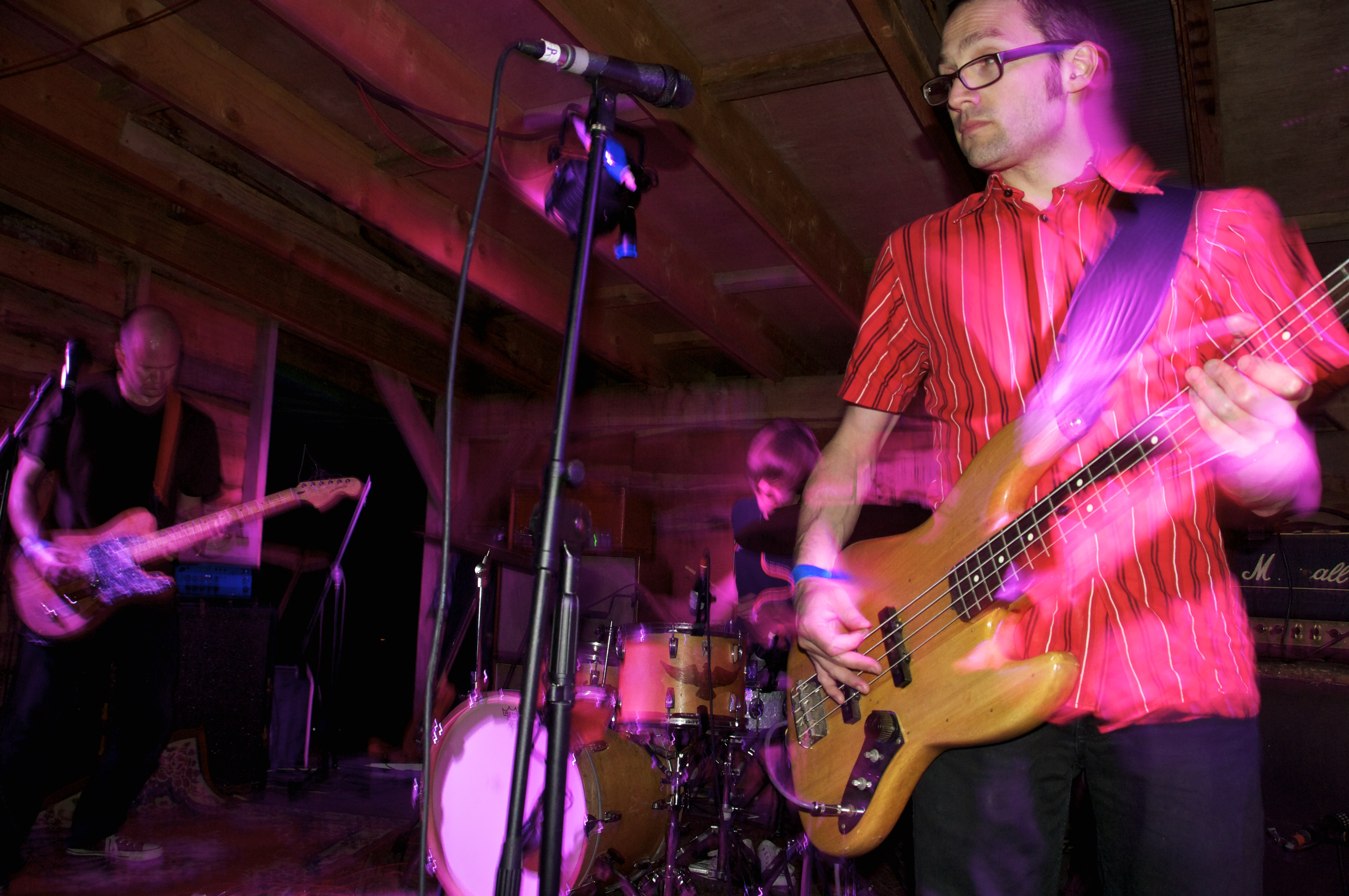 Bilge Pump. Supernormal Festival, Brazier's Park, UK August 2012 More neate photos. New neate photos facebook page.